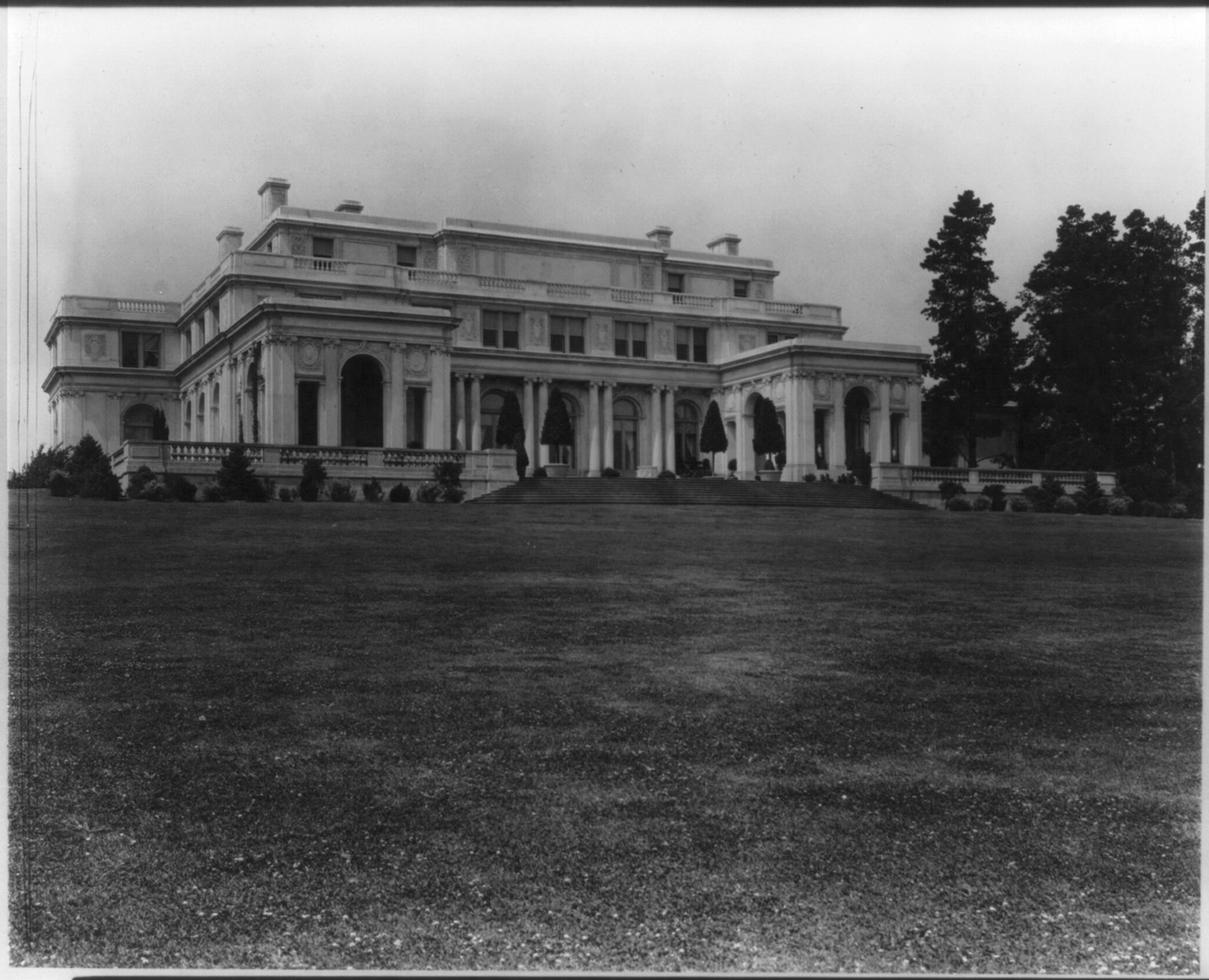 Title: "Uplands," Charles Templeton Crocker house, 400 Uplands Drive, Hillsborough, California. View to terrace Abstract/medium: 1 photographic print.